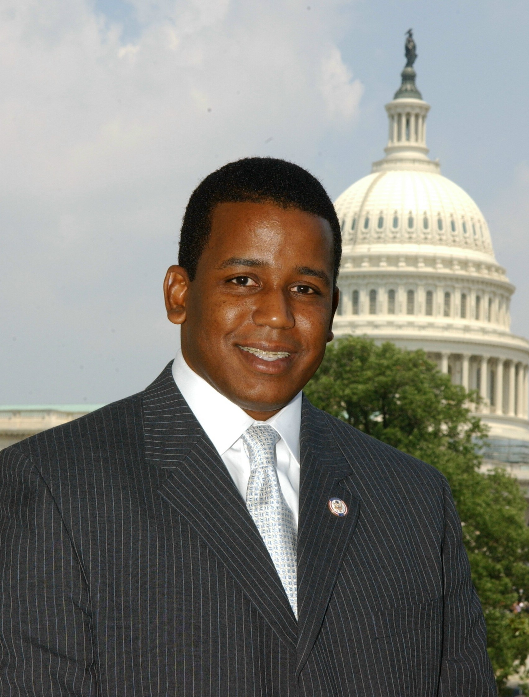 Kendrick Meek, U.S. Congressman.